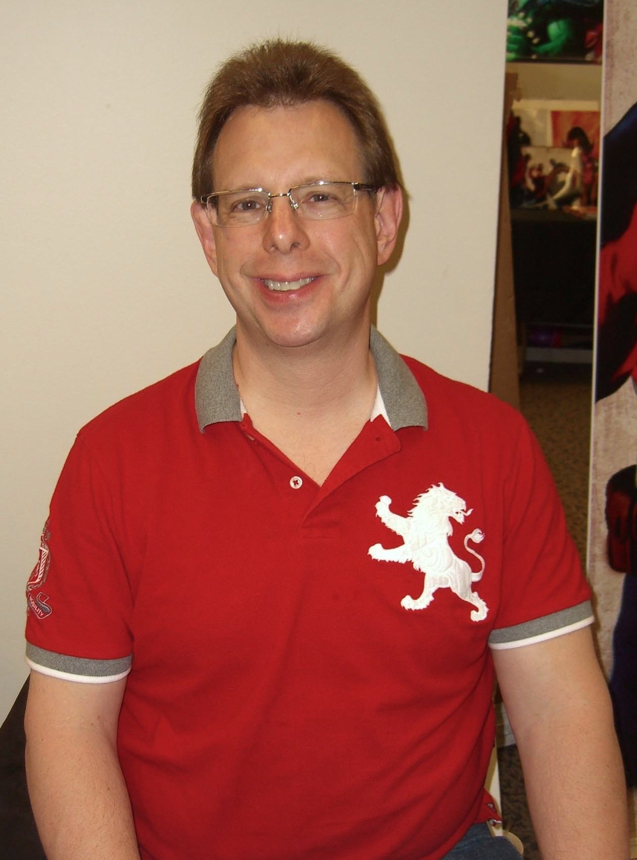 Comics creator David Campiti at the Big Apple Convention in Manhattan, May 21, 2011. Photographed by Luigi Novi. This photo is not in the public domain. It may, however, be used, modified and published for any purpose, free of charge, only if the photographer is properly credited, either by linking the photograph to this page, or with an easily visible credit to the photographer placed near the photo in each instance in which it is used. (See licensing information below.) Publication of this photo without this proper attribution constitutes copyright infringement. If you have any questions, you can contact me on my Wikipedia Talk Page.